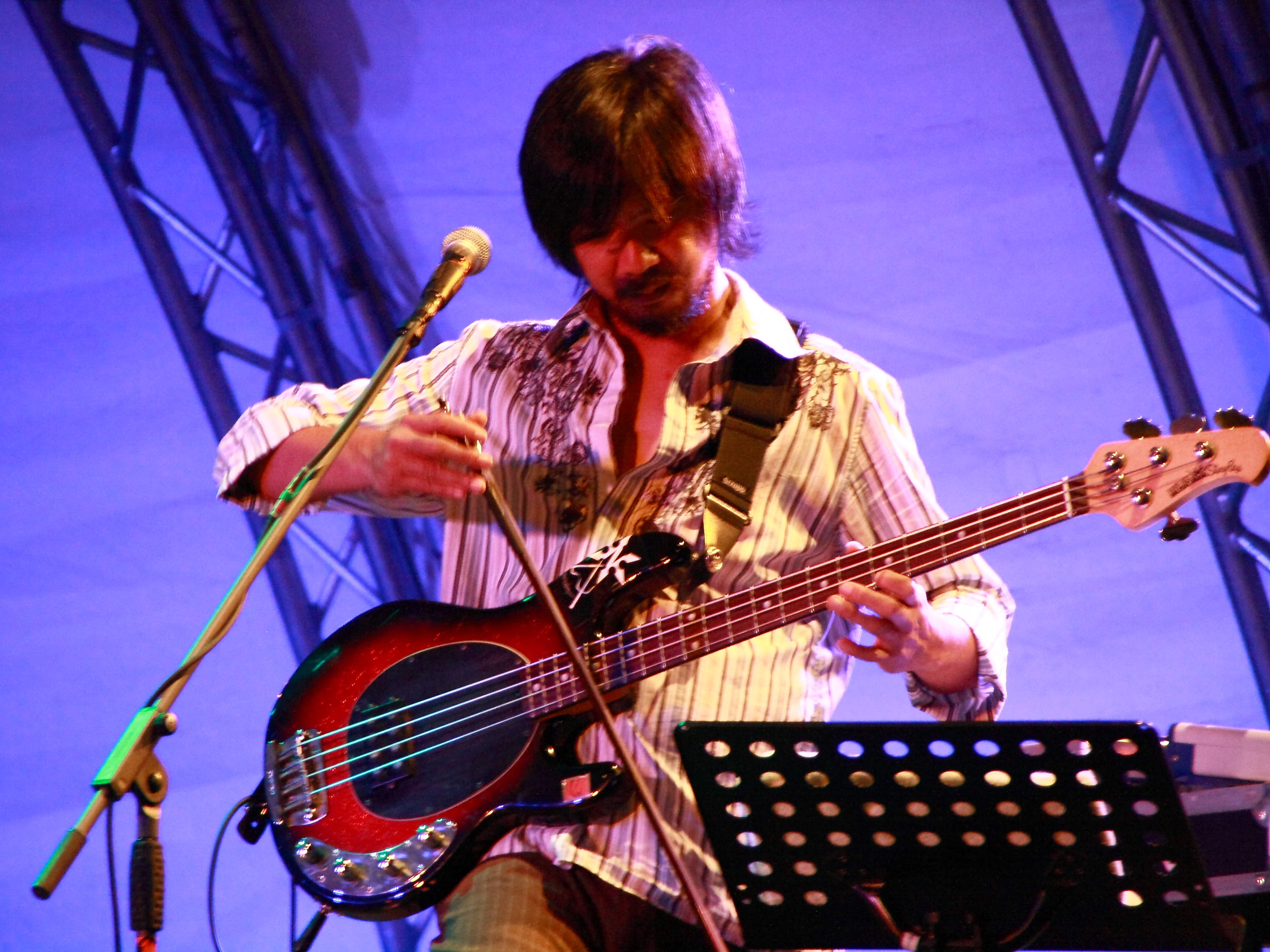 Jose Mari Maramba (b) with Rickie Lee Jones at TFF.Rudolstadt 2010